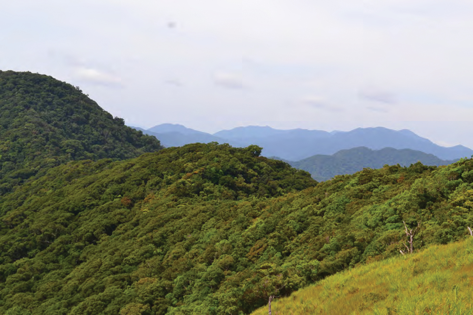 The forested edge of the Mt. Cagua volcanic crater with the northern Sierra Madre in the background. Photo: RMB.